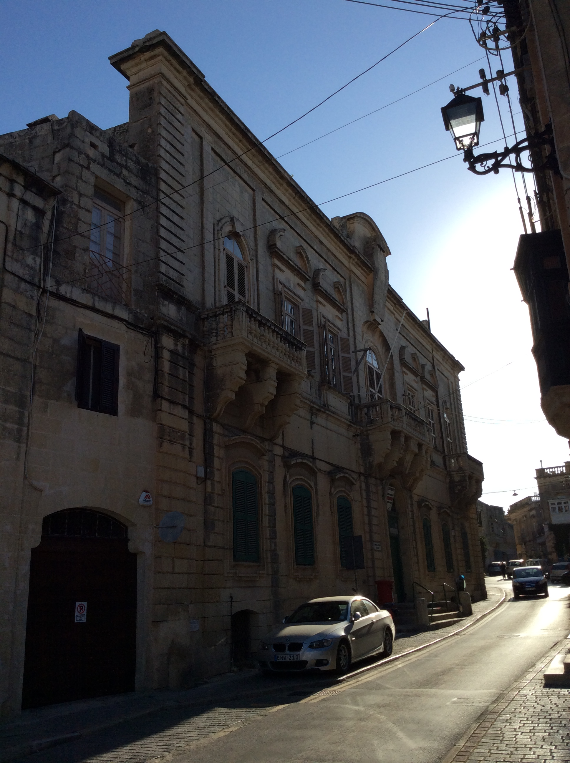 Balzan